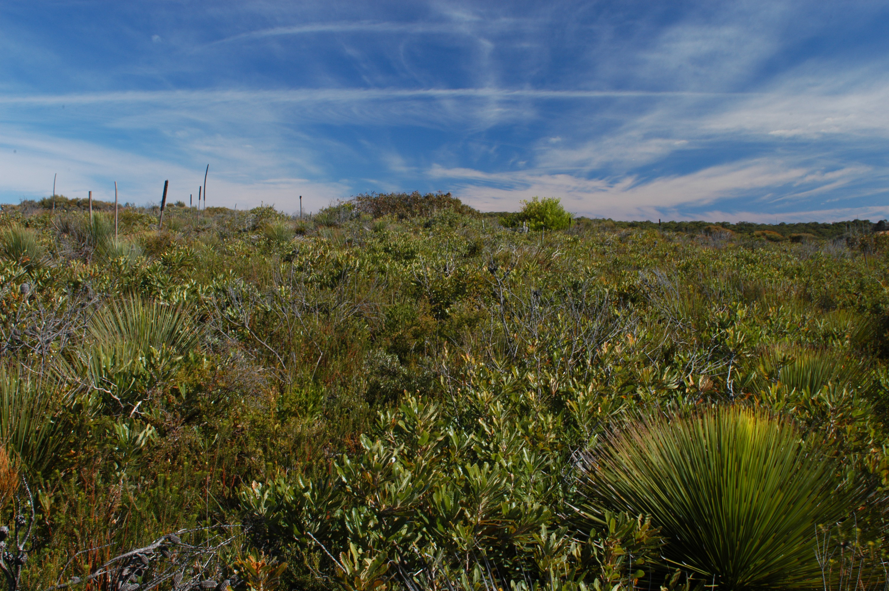 Clouds over Wallum Heath